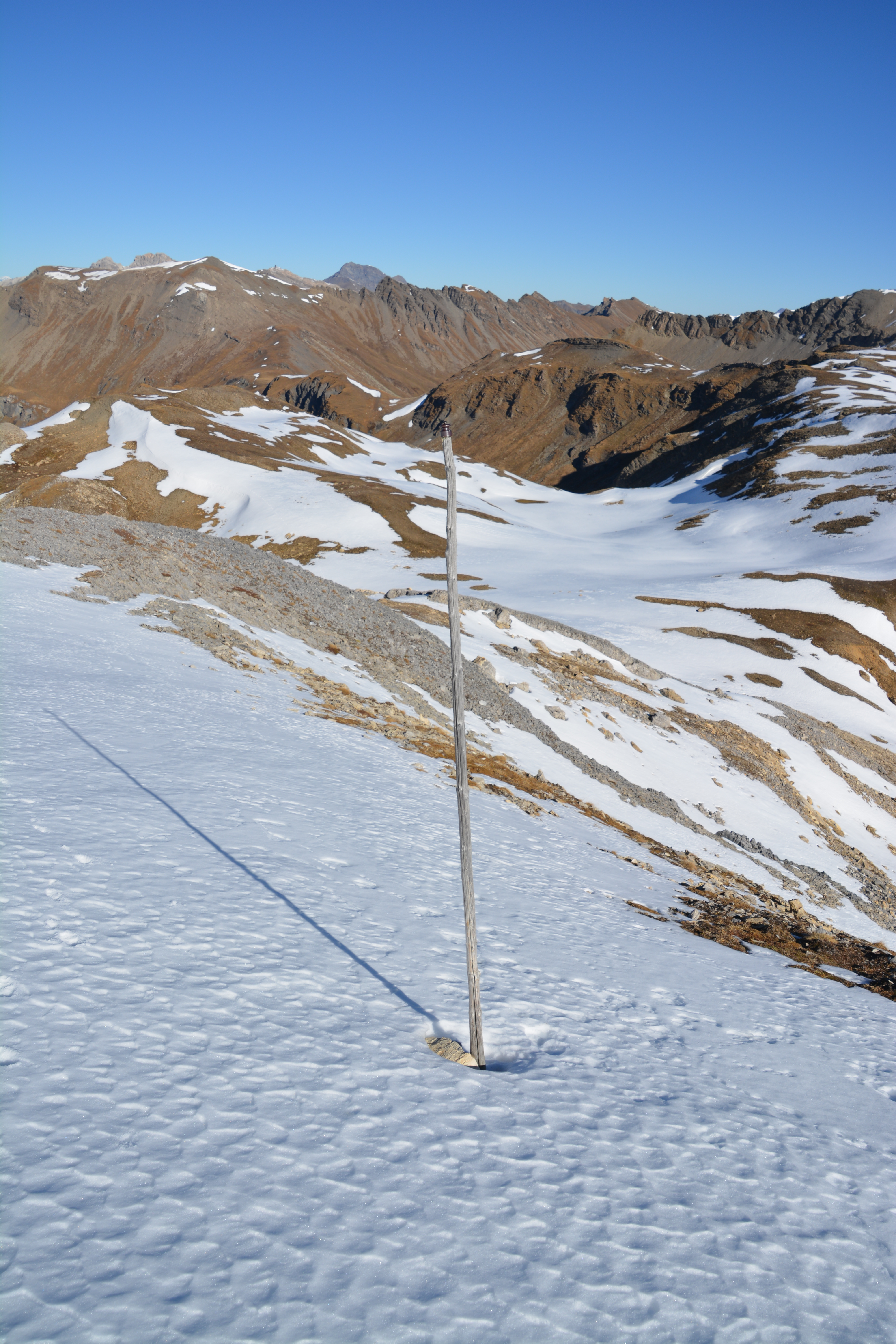 Wooden path marker from the first world war (!!) on Usser Wissberg (Surses, Grison, Switzerland)